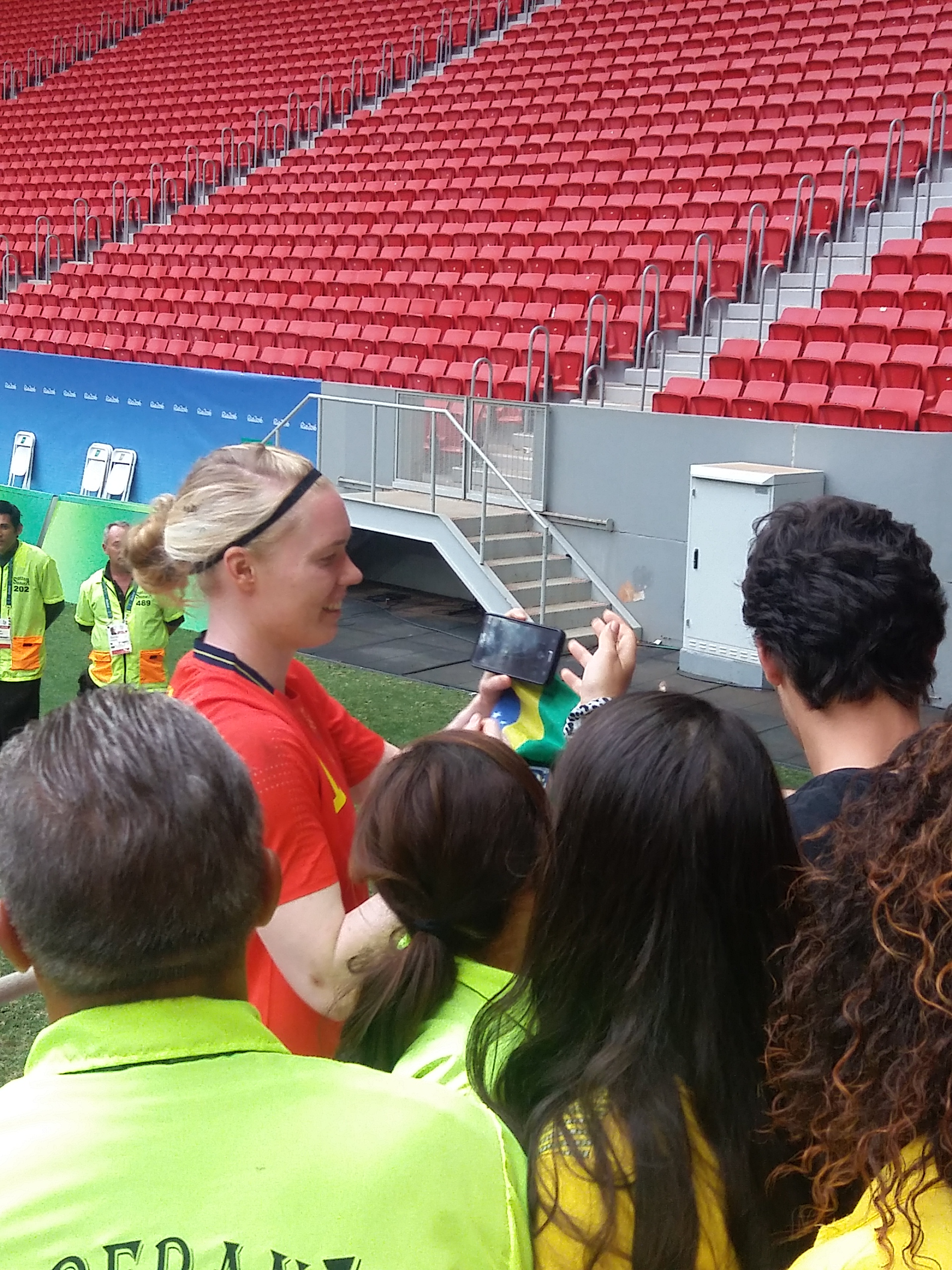 Hedvig Lindahl greets fans at Estádio Nacional Mané Garrincha, Brasília after the Sweden v. USA match at the 2016 Olympic Games.